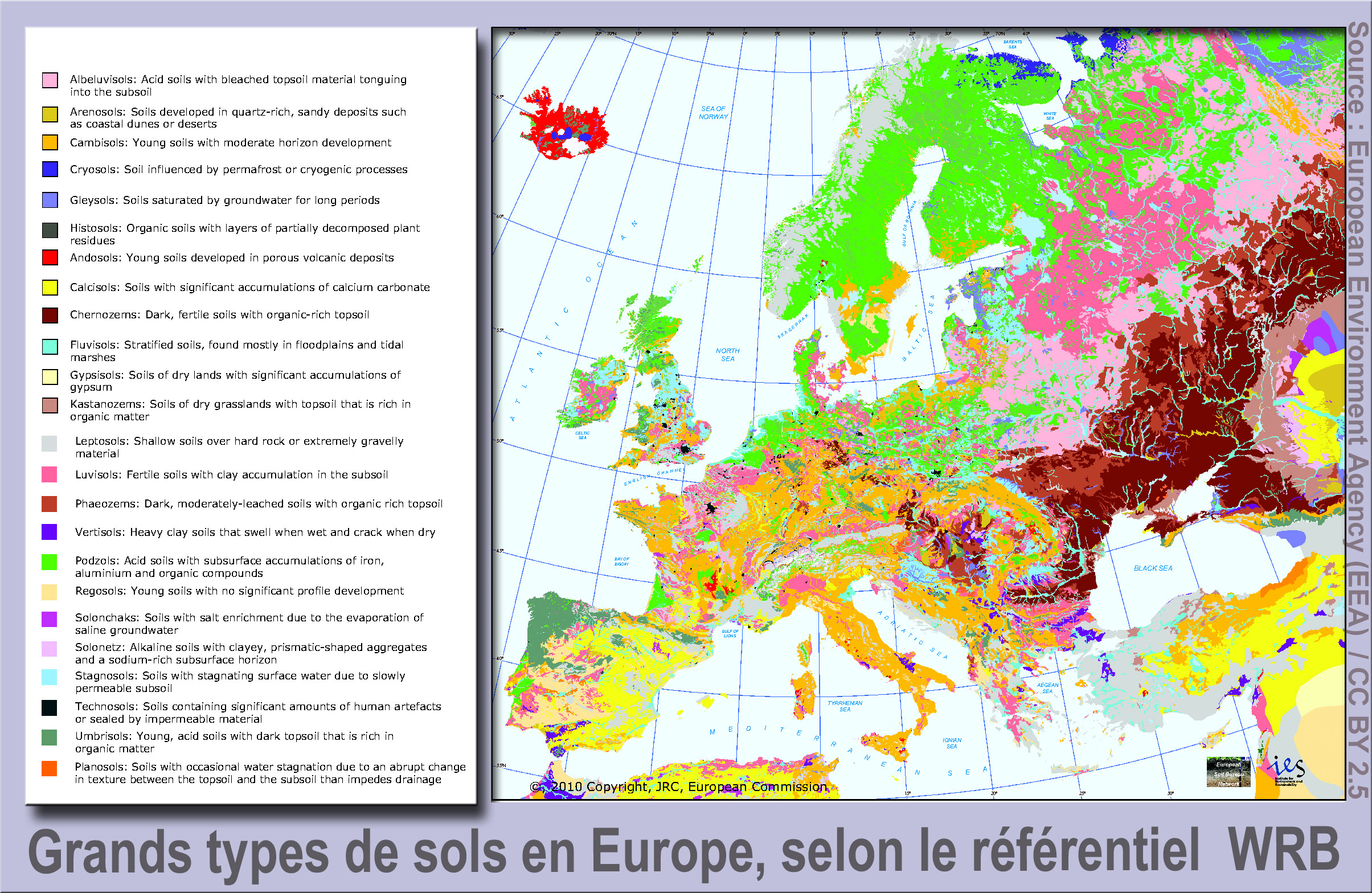 The map shows the major soil types as defined by their WRB Reference Group name. (for Albania, Algeria, Austria, Belgium, Bosnia and Herzegovina, Bulgaria, Belarus, Croatia, Cyprus, Czech Republic, Denmark, Germany, Estonia, Finland, France, Georgia, reece, Hungary, Iceland, Ireland, Italy, Latvia, Lithuania, Luxembourg, Macedonia, Malta, Republic of Moldova, Montenegro, Morocco, The Netherlands, Norway, Poland, Portugal, Romania, Serbia, Spain Slovenia, Slovakia, Sweden, Switzerland, Syria, Tunisia, Turkey, Ukraine, United Kingdom) ; 07 Dec 2010; Source : EEA, European Soil Database 2006 ; CC-by-2.5, retrieved 2011-10-22.